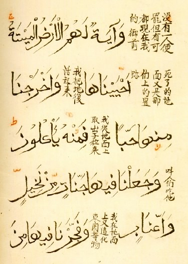 Quran with Chinese translation recorded in both Arabic and Chinese scripts.